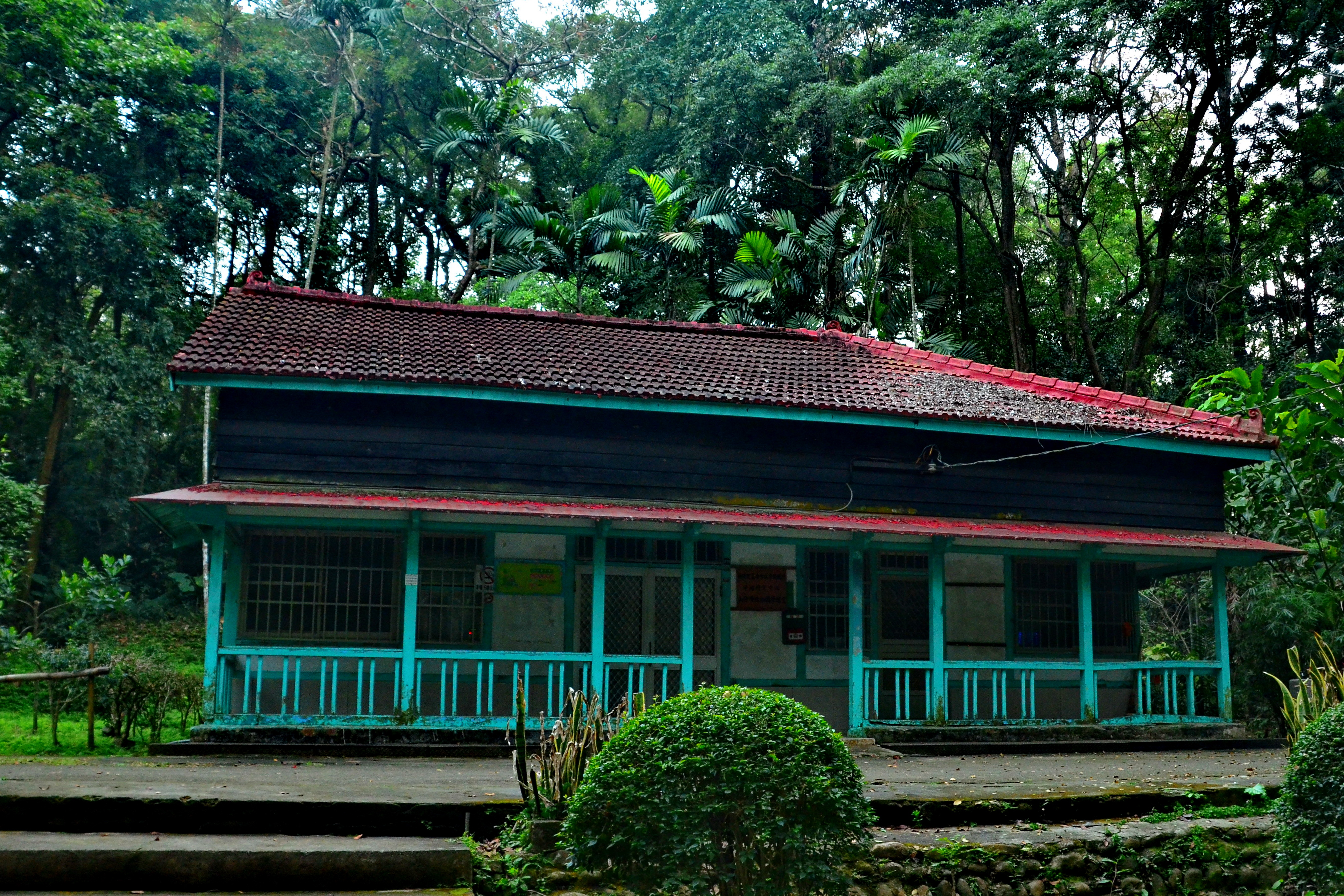 Shanzihding Botanical Garden, Taiwan Forestry Research Institute, office building, Chiayi City, Taiwan.